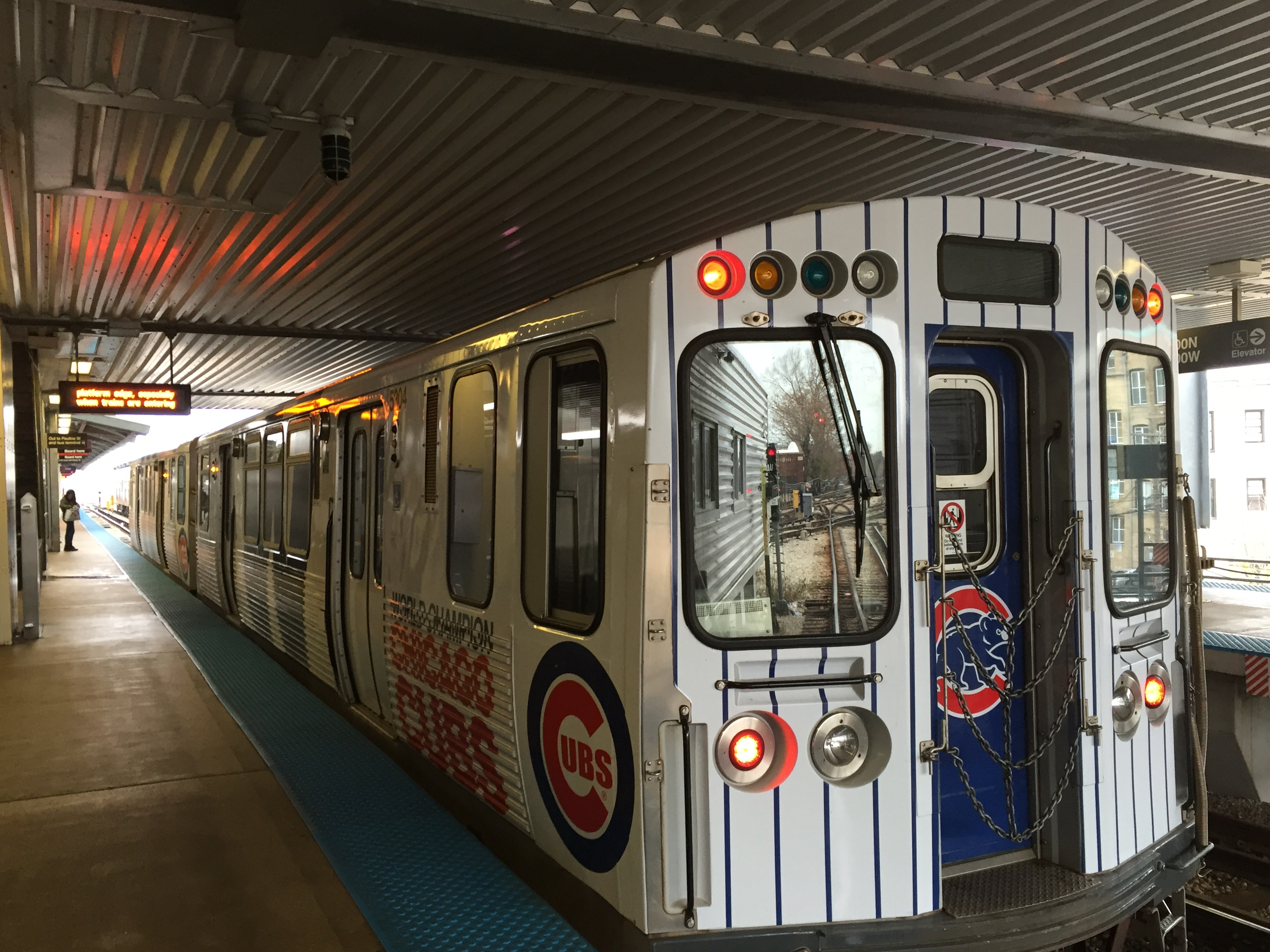 CTA train at the Howard Station decorated in celebration of the Chicago Cubs' 2016 World Series victory